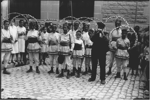 "Cercolets" traditional Catalan Dance (Igualada, 1925)